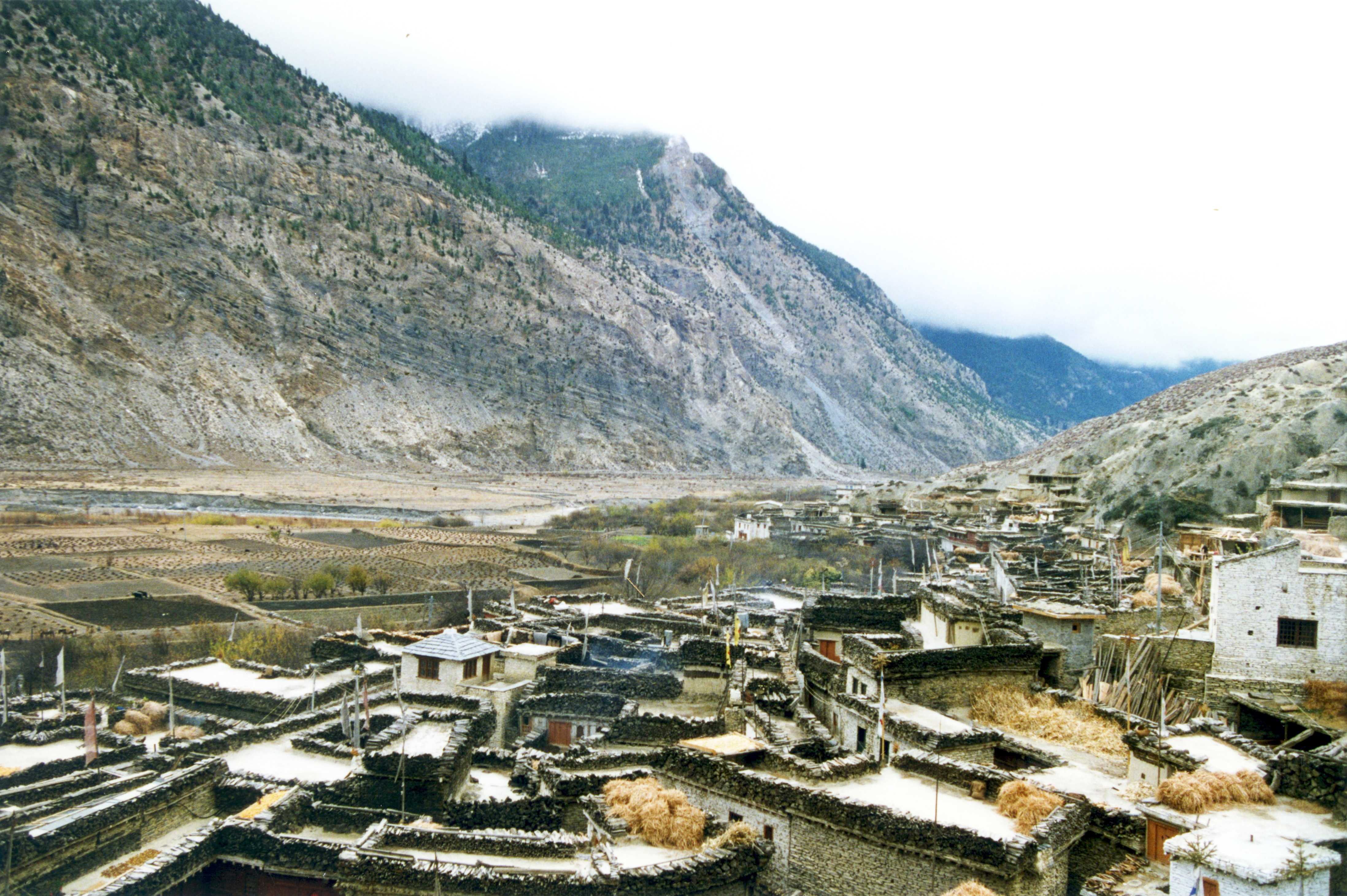 This is Kagbeni village of Mustang, Nepal